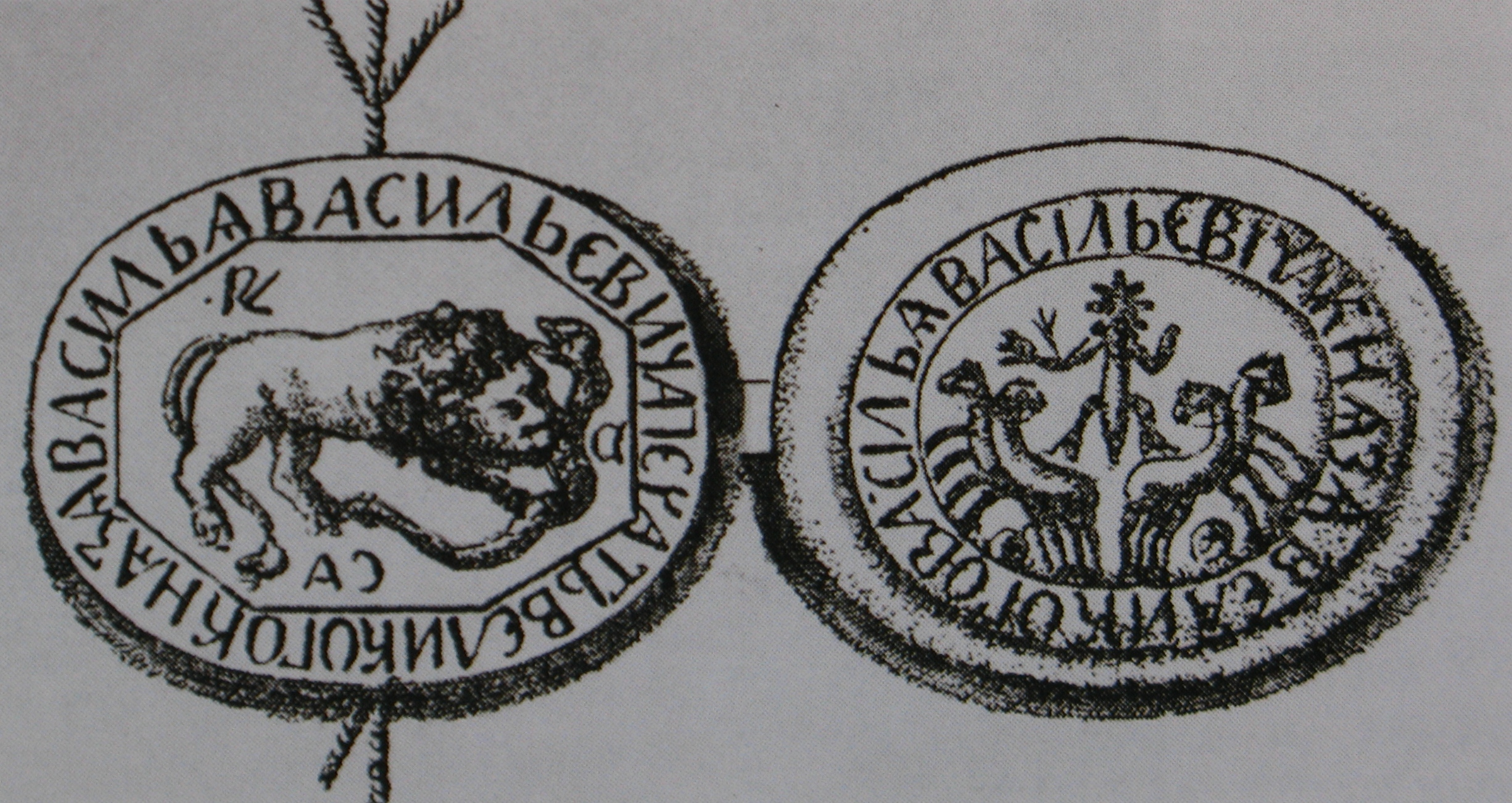 The seal of Vasily II.